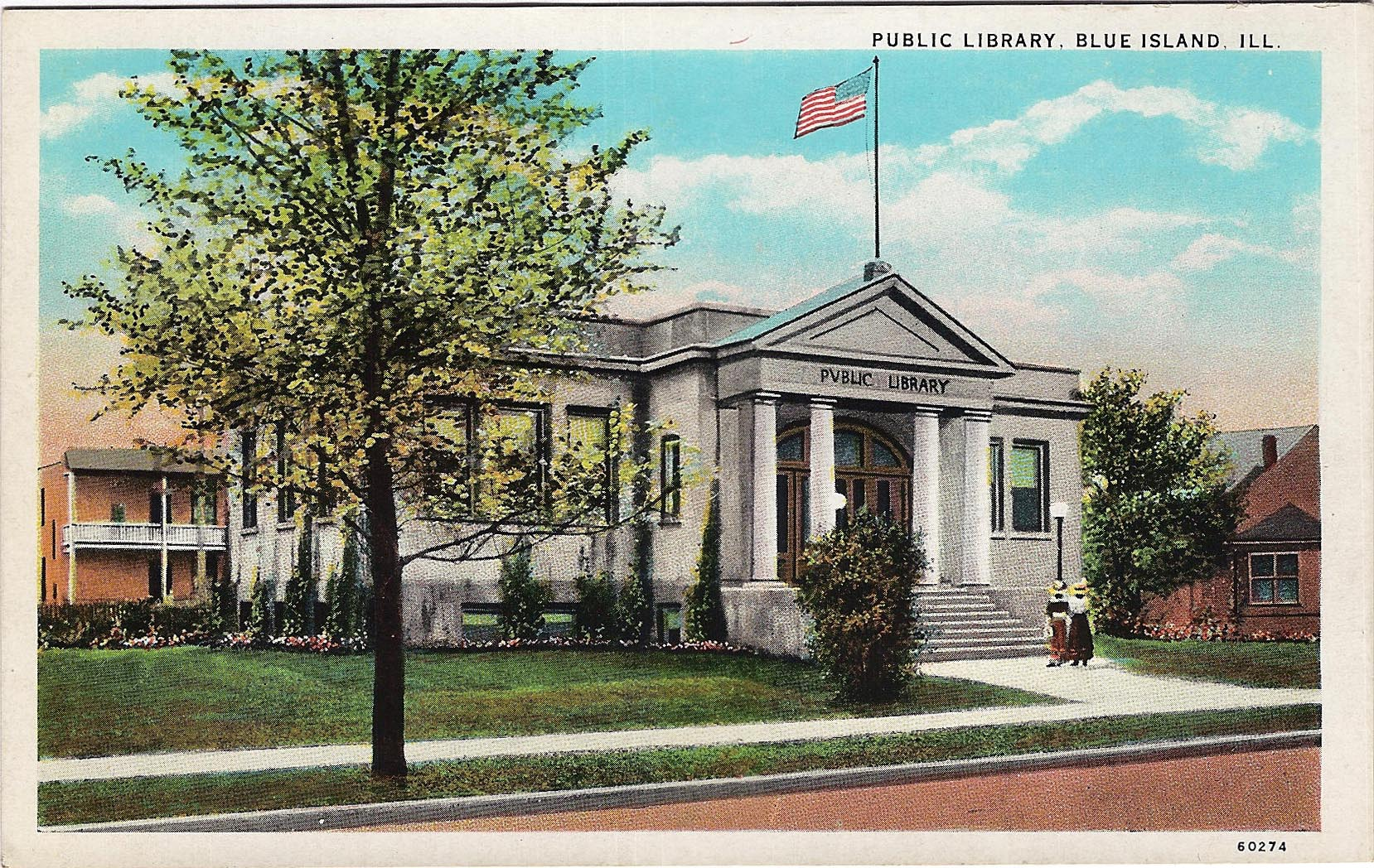 An exterior view of the Carnegie Library (1903, demolished) in Blue Island, IL